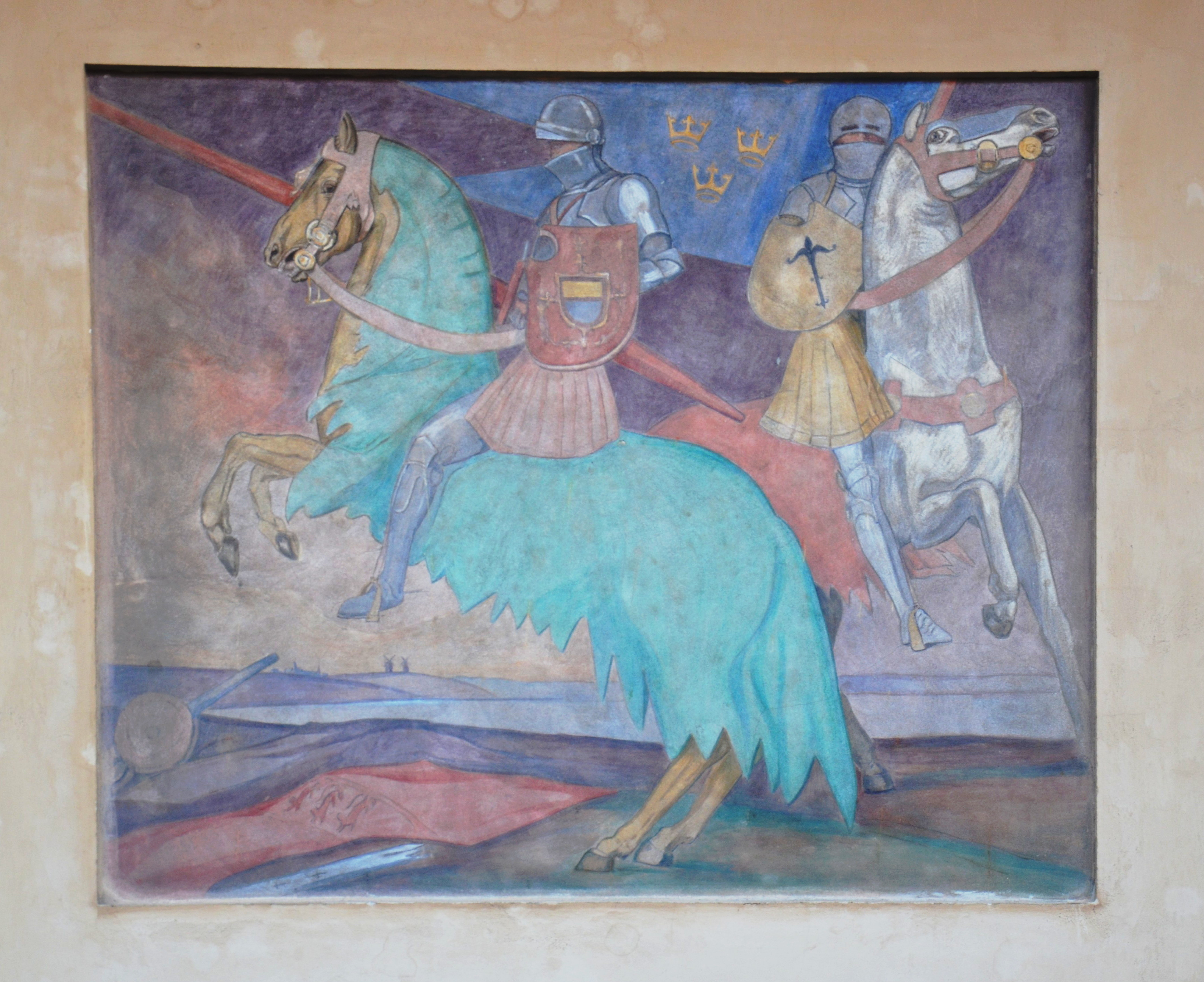 Jürgen Wrangel, fresk på gårdssidan av Brännkyrka församlingshem i Liljeholmen i Sockholm, 1924-25